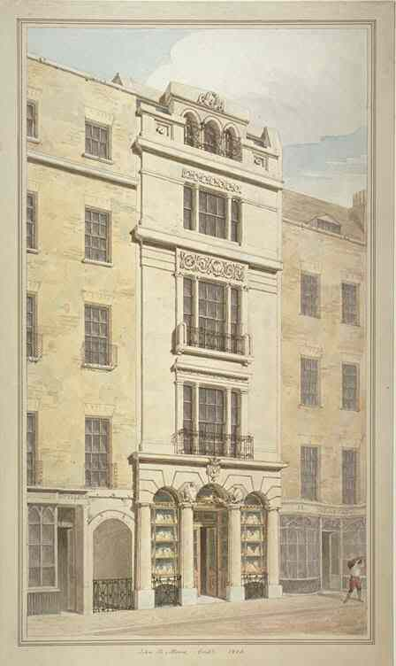 Watercolour of 32 Ludgate Hill, London, the shop of Rundell and Bridge, jewellers.